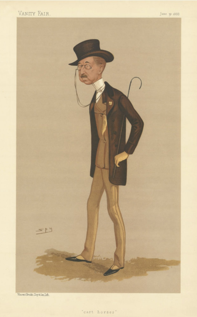 Men of the Day No.404: Caricature of Mr Walter Gilbey. Caption reads: "cart horses"